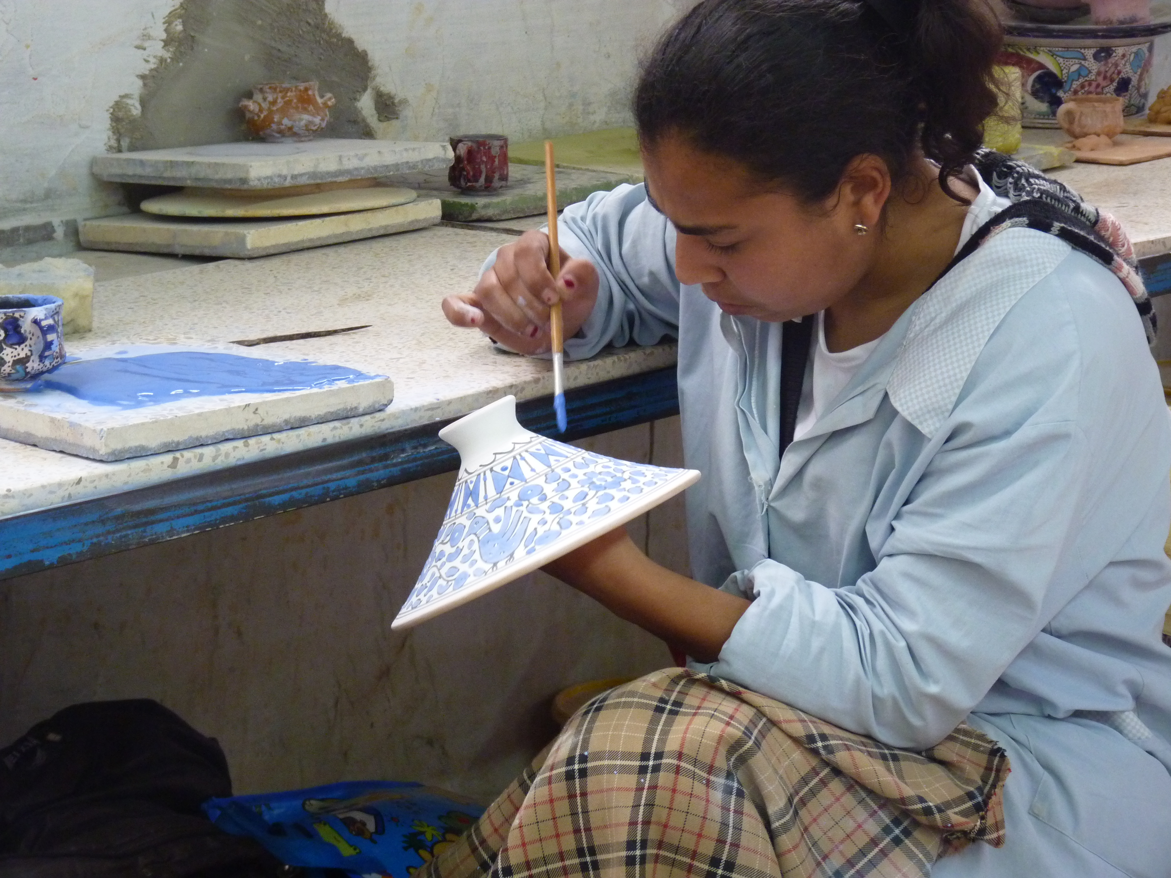 Tunisian woman hand-painting ceramics